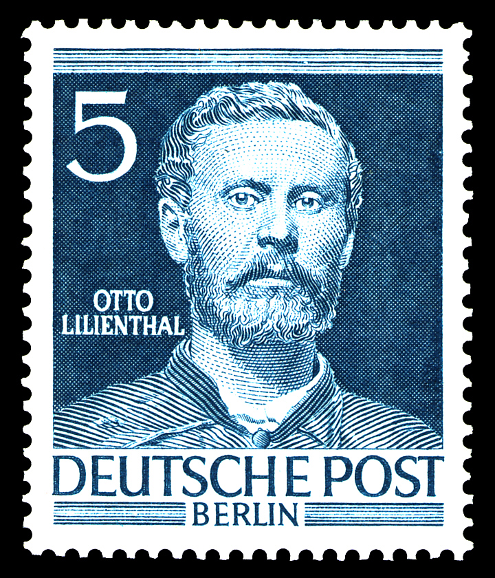 stamp series, men of the history of Berlin I, Otto Lilienthal, (1848-1896)